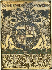 Garter stall plate of Sir Anthony St Leger (d.1559), Knight of the Garter, Lord Deputy of Ireland. St George's Chapel, Windsor Castle. Inscribed above with motto: SOMIENE DE MOY DIEN (apparently garbled French, possibly for souviens de mon dieu, "I remember my God"?). At base in semi-illiterate French (i.e. with basic errors in gender): Du noble et vailant chevalier mesier Antonye Sentleger Deputie pour la roy en son royalme d'Ierlond et une de la estroiet chamber du roy NRE (n(ot)re?) souverain SHR frere et compaignon de la tres noble Ordre de la Jarretiere ("Of the noble and valiant knight Sir Anthony St Leger, deputy for the king in his kingdom of Ireland and one of the privy chamber of the king (our?) sovereign SHR? brother and companion of the most noble Order of the Garter"). The heraldry shows an escutcheon circumscribed by the Garter displaying the arms quarterly 1 & 4 Azure fretty argent (St Leger); 2 & 3: Argent, three barnacles gules tied sable (Donet of Sileham, Rainham, Kent). Sir Anthony's grandfather Sir John St Leger of Ulcombe, Kent, married Margery Donet (or Donnet), daughter and heiress of James Donet (d.1409) of Sileham. Crest: A griffin statant (Crest of St Leger family, Viscount Doneraile: A griffin passant or (Debrett's Peerage, 1968, p.365)); supporters: Two griffins wings elevated (supporters of St Leger family, Viscount Doneraile: Two griffins or wings elevated azure fretty argent (Debrett's Peerage, 1968, p.365))